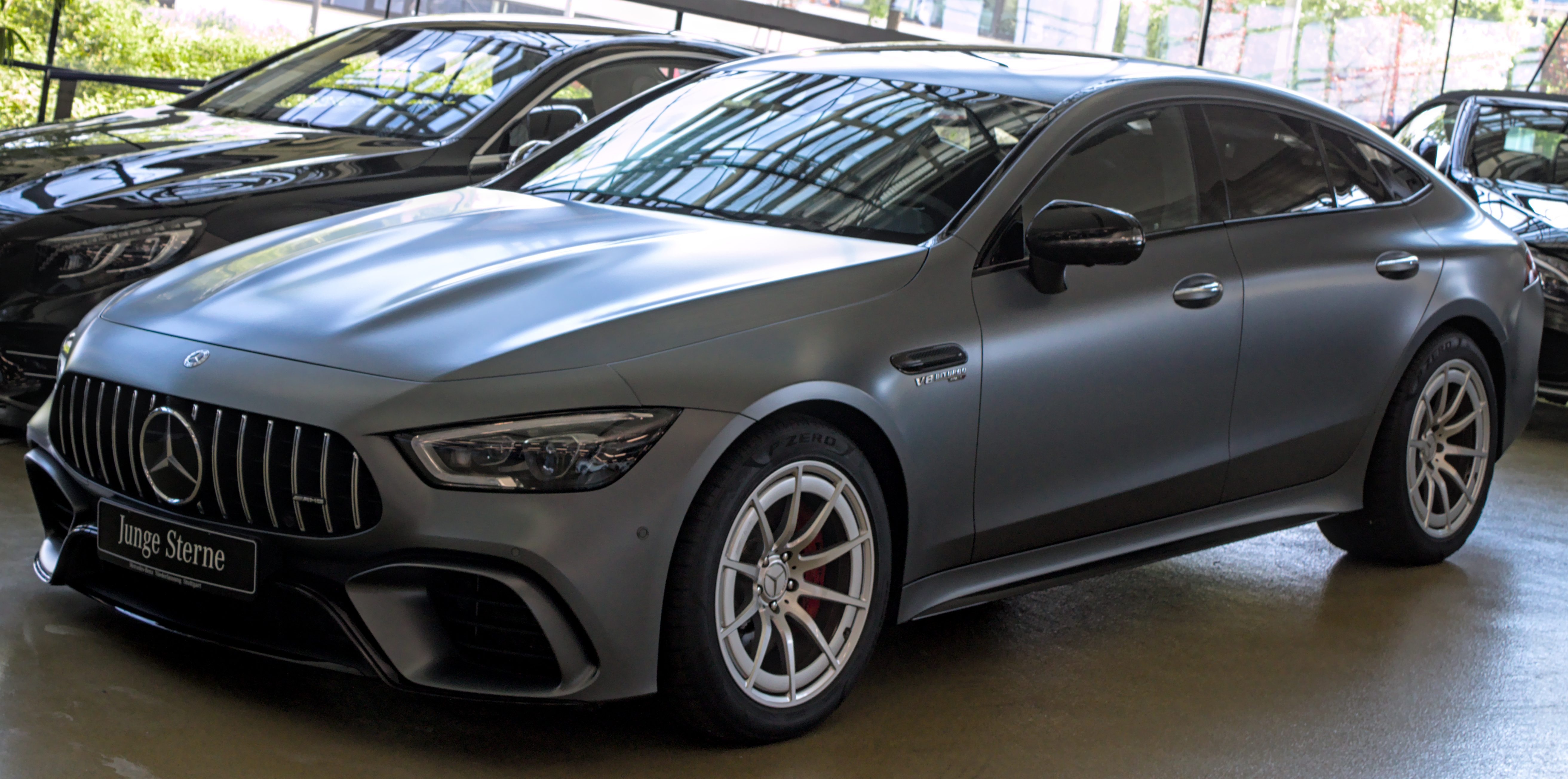 Mercedes-AMG_GT_63 in Stuttgart